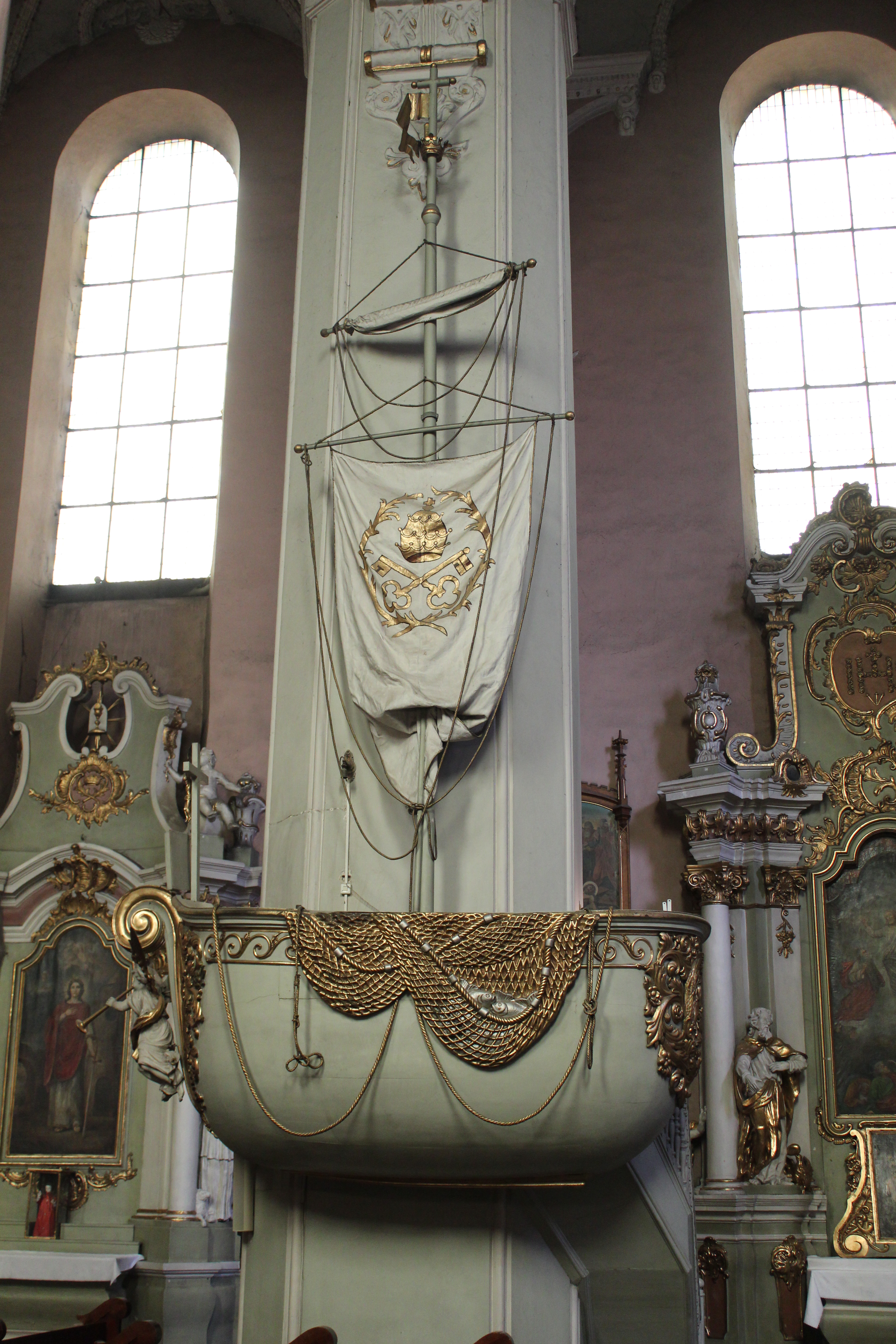 Saint Stanislaus church in Kalisz